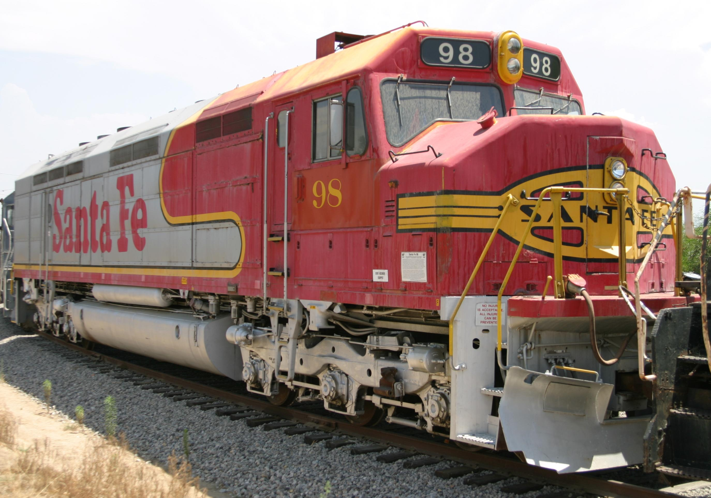 Santa Fe 98 is an EMD FP45 locomotive at the Orange Empire Railway Museum in Perris, California. Taken 8/4/03 by User:Pretzelpaws with a Canon EOS-10D camera. Cropped 8/28/05 using the GIMP.